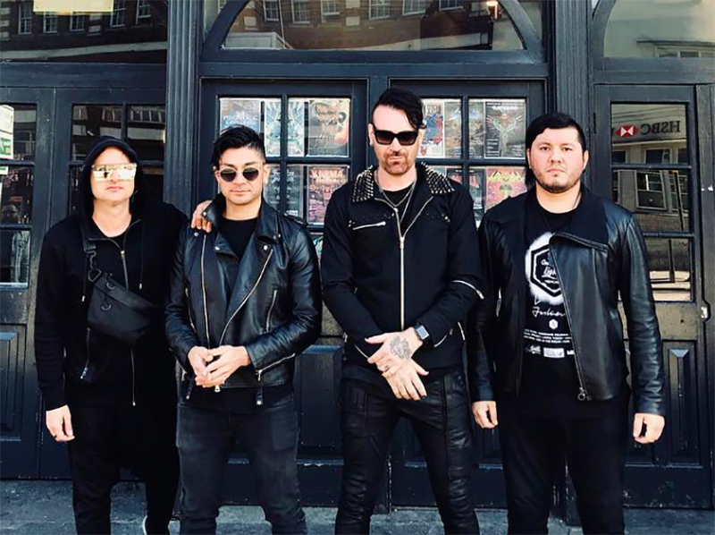 U.S. electronic rock band Julien-K standing in front of Underworld Camden in London in September 2018.